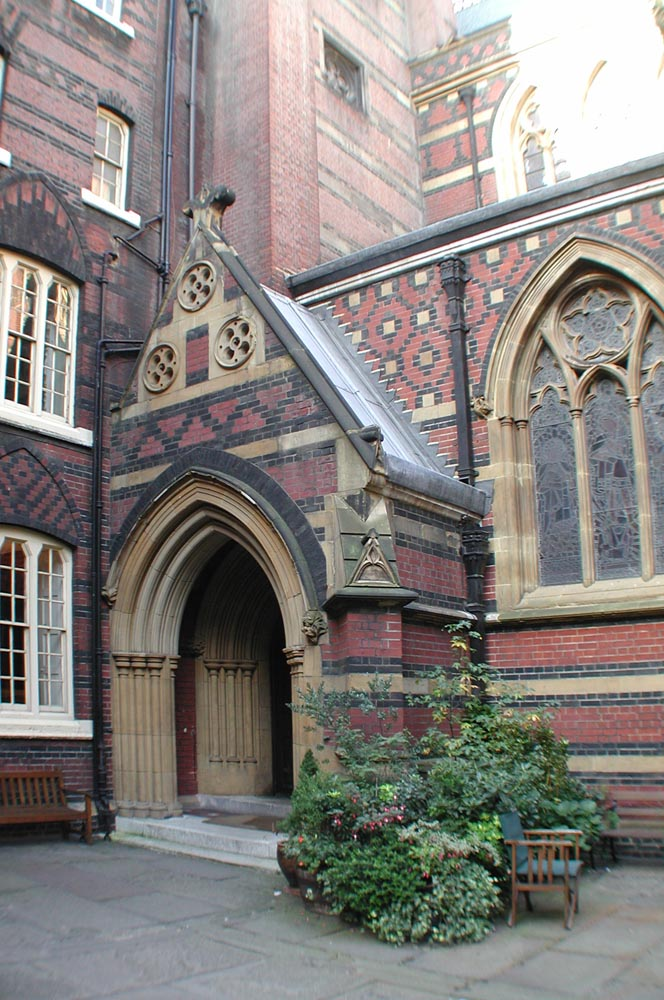 All Saints, Margaret Street, London W1 - Porch, near to Marylebone, Westminster, Great Britain.